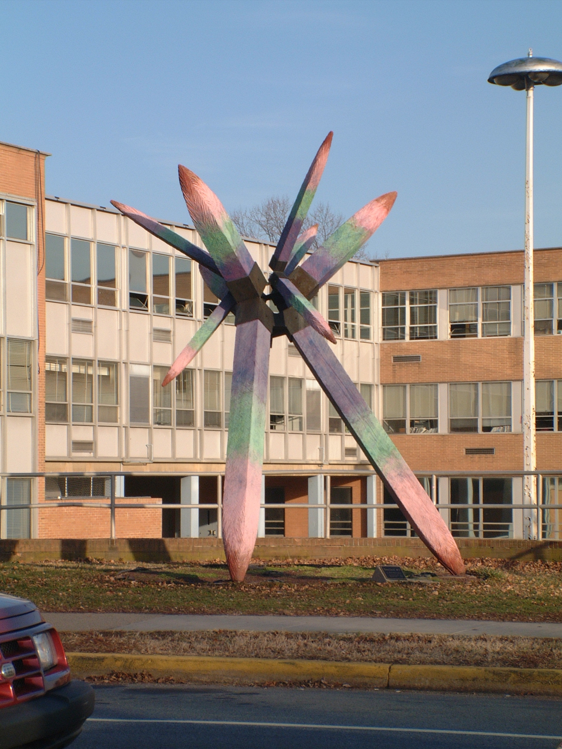 Cab Calloway School of the Arts sentinel